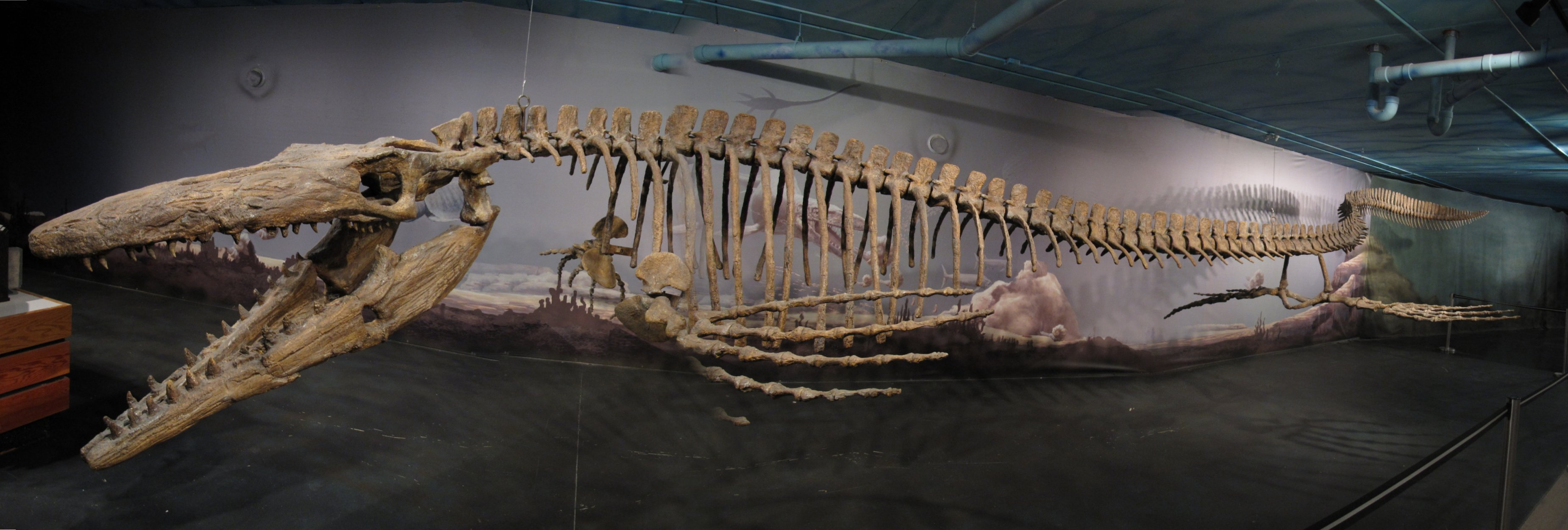 Yeah the stitching on here is absolutely horrible, but I'm uploading it anyway, just to give you a sense of how big this darn thing was. Tylosaurus pembinensis skeleton, Canadian Fossil Discovery Centre, Morden MB. Mosasaurs were large aquatic reptiles that lived during the Cretaceous period.